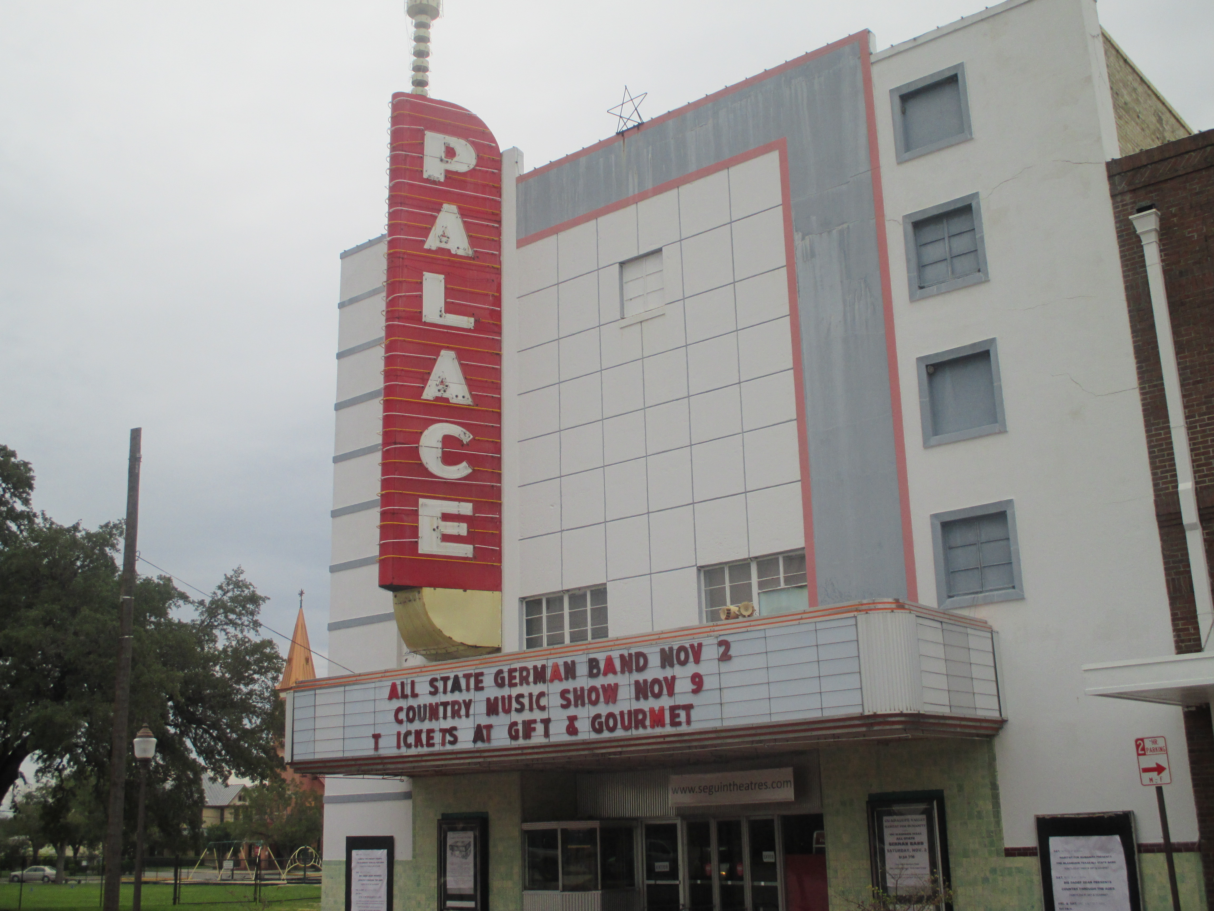 I took photo with Canon camera of Palace Theatre in downtown Seguin, TX. The theatre, built in 1947, was listed on the National Register of Historic Places on August 14, 2003 as a contributing structure to the Seguin Commercial Historic District (Boundary Increase).